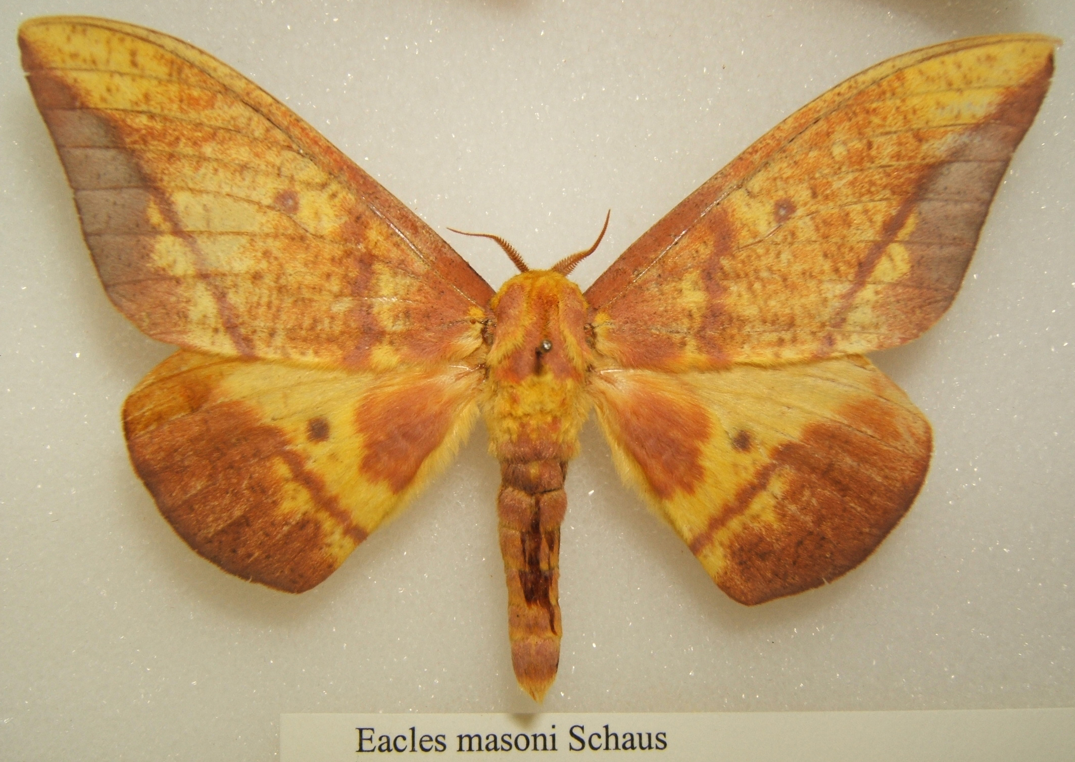 Eacles masoni adult male taken by Shawn Hanrahan at the Texas A&M University Insect Collection in College Station, Texas.